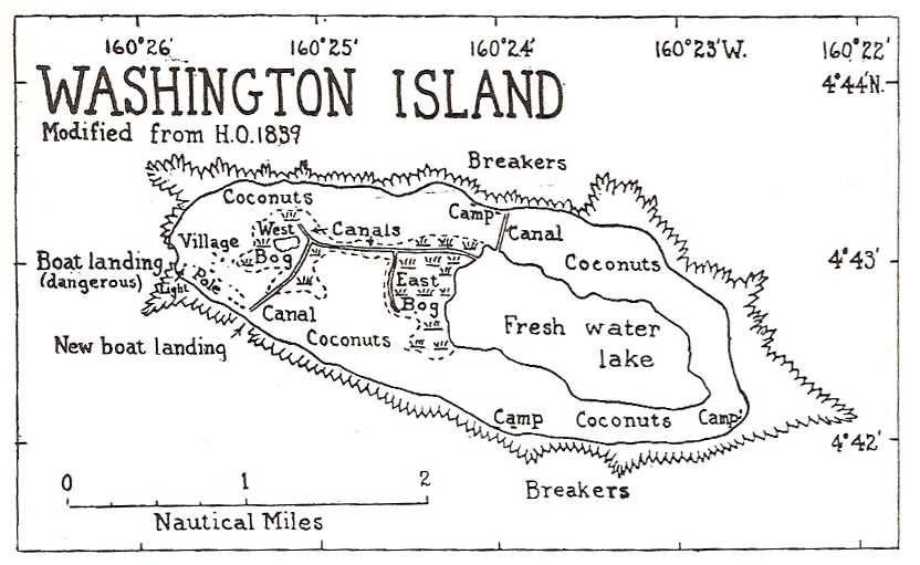 Washington Island, Kiribati.